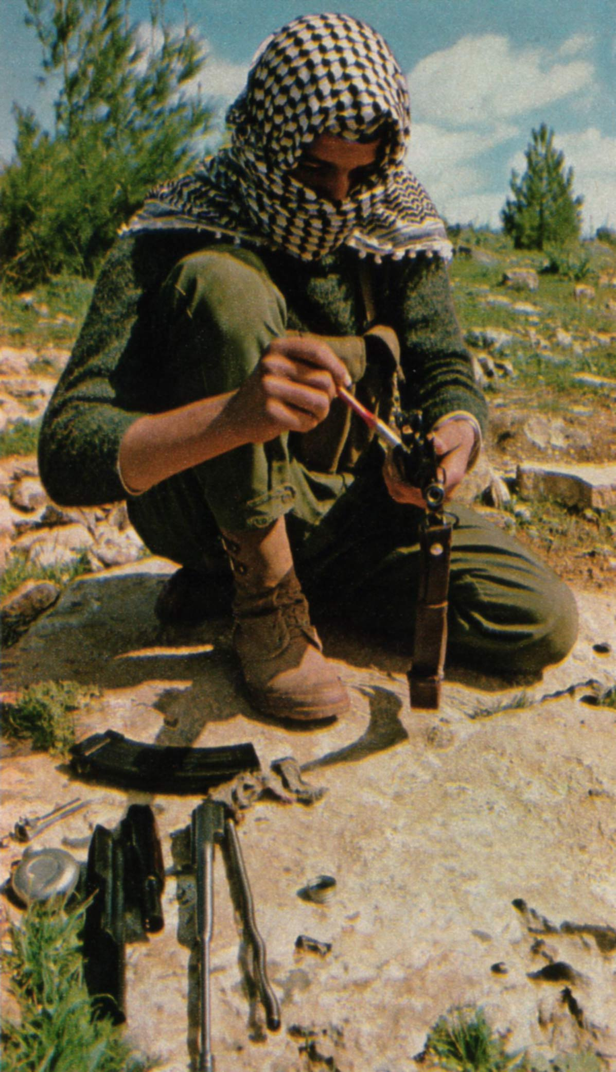 Taiseir, a veteran of the Popular Front for the Liberation of Palestine, cleans a Kalishnikov assault rifle, in Jordan early in 1969.